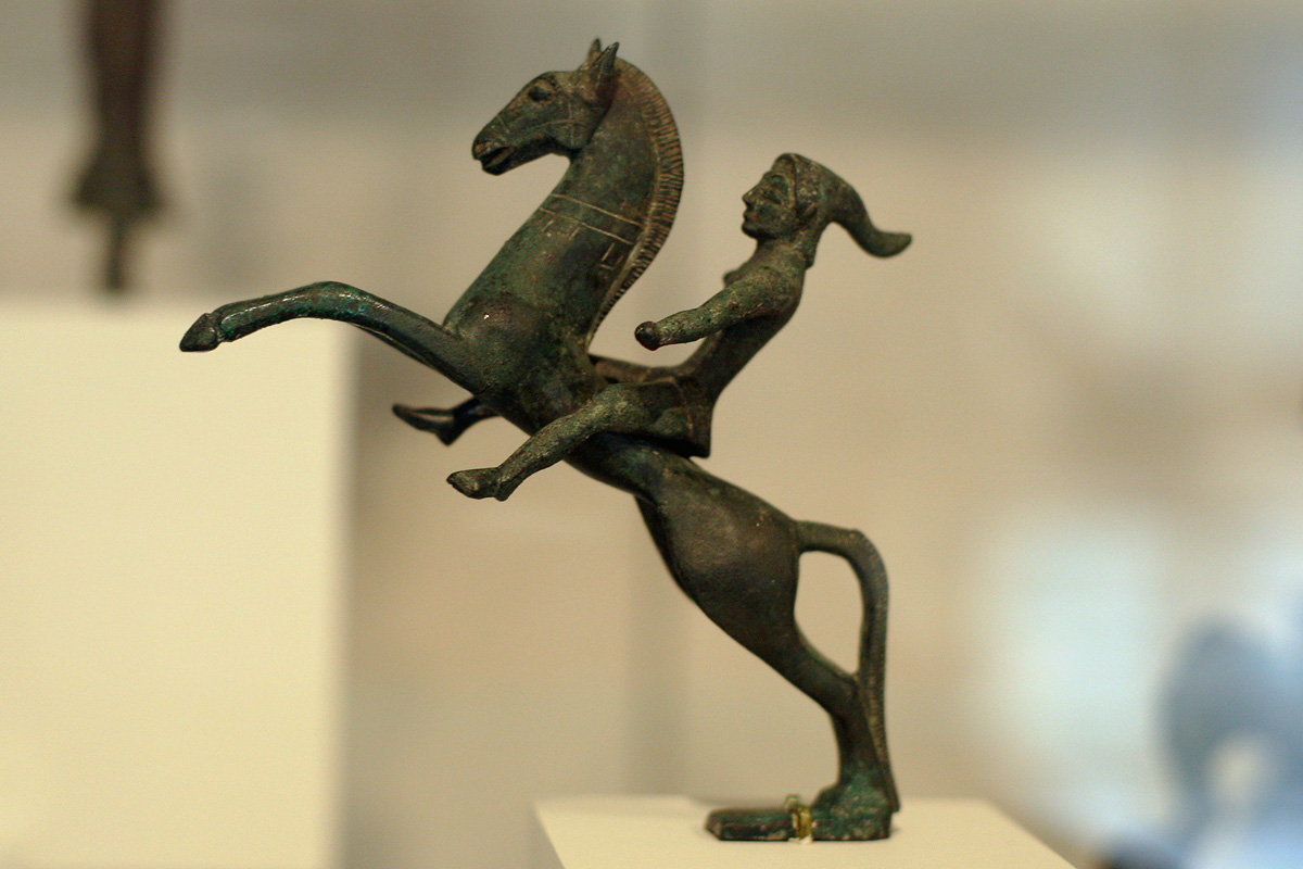 Metropolitan Museum of Art # 1989.281.78a,b Photographer: Katie Chao